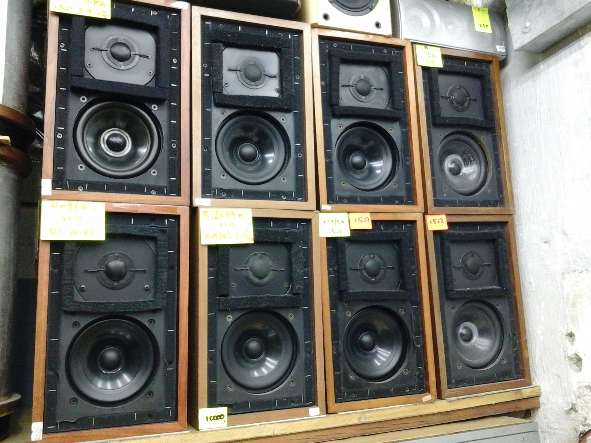 An array of the LS3/5A Hong Kong 15 December 2013 Author, and attribution please to, Ohconfucius quote from Wikipedia:en:LS3/5A "Versions of the speaker (mostly from Rogers) of various vintages on display in a second-hand shop"